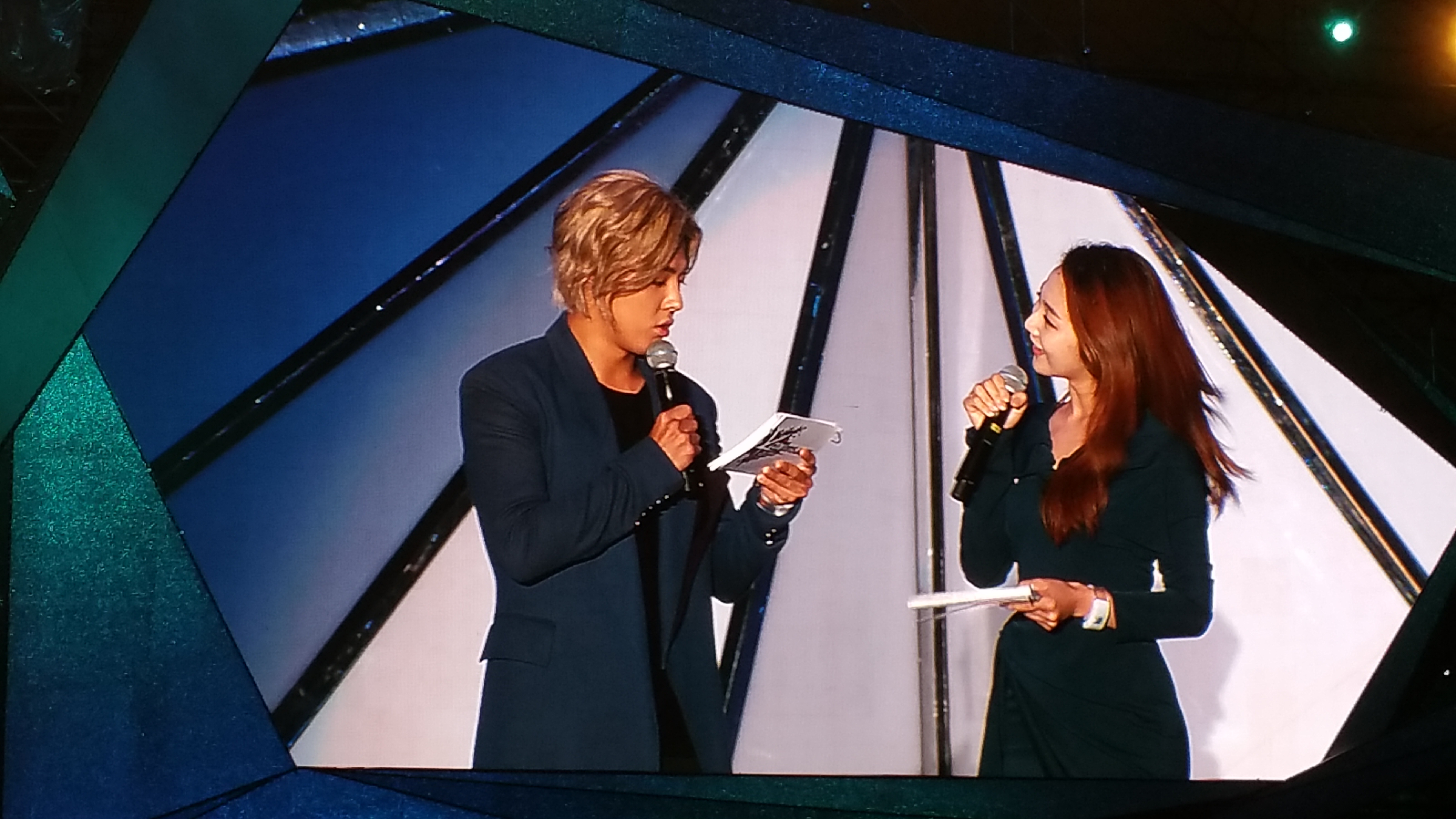 KCON JEJU 2015, stadium concert presenters Kangnam and female announcer, on stage screen, November 7, Jeju Stadium, Jejudo, South Korea.